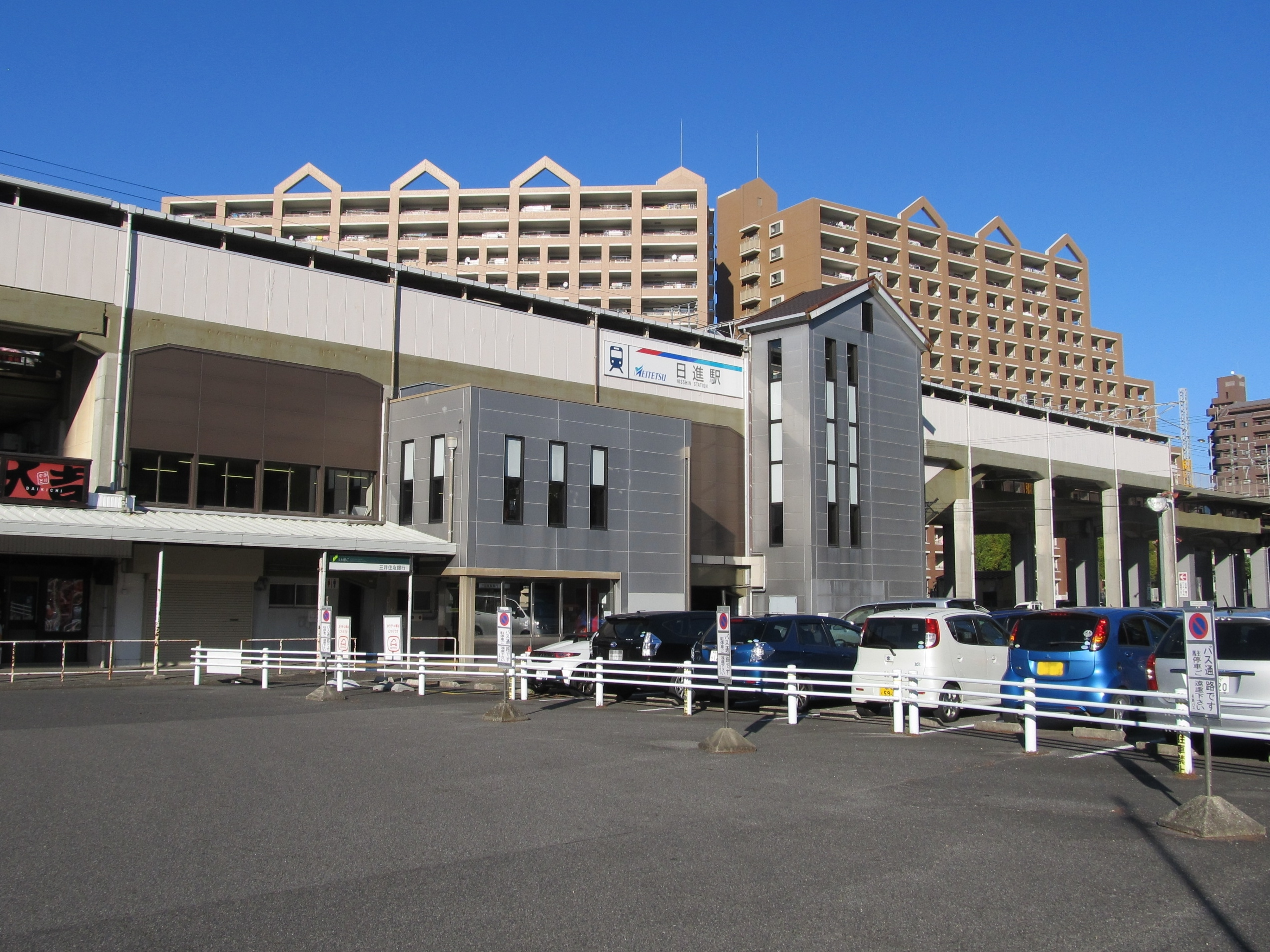 Nagoya Railroad Toyota Line Nisshin Station Building